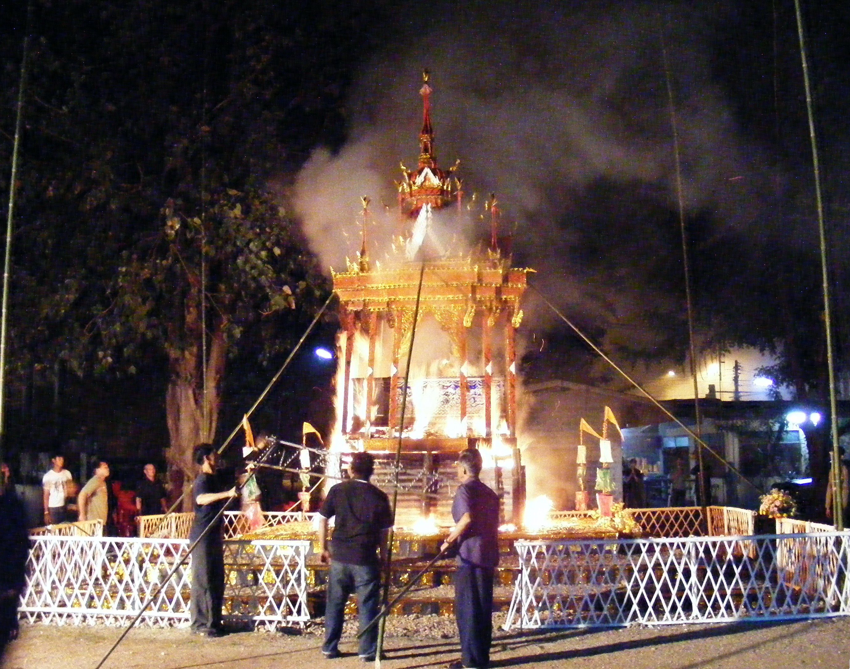 crematorium temporary for Buddhist priest cremation in Wat Khung Taphao, Ban Khung Taphao, Khung Taphao subdistrict, Mueang Uttaradit, Uttaradit Province, Thailand.) on February 9, 2008.